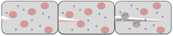 In Situ Polymerization of microcapsule-imbedded composite materials